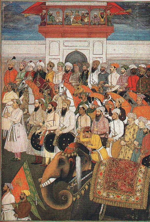 Jahangir receives Prince Khurram on his return from the Deccan (10 October 1617)